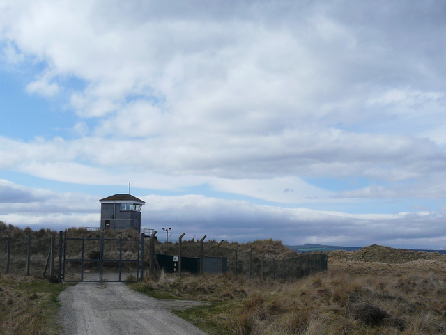 Observation tower in RAF Tain bombing range